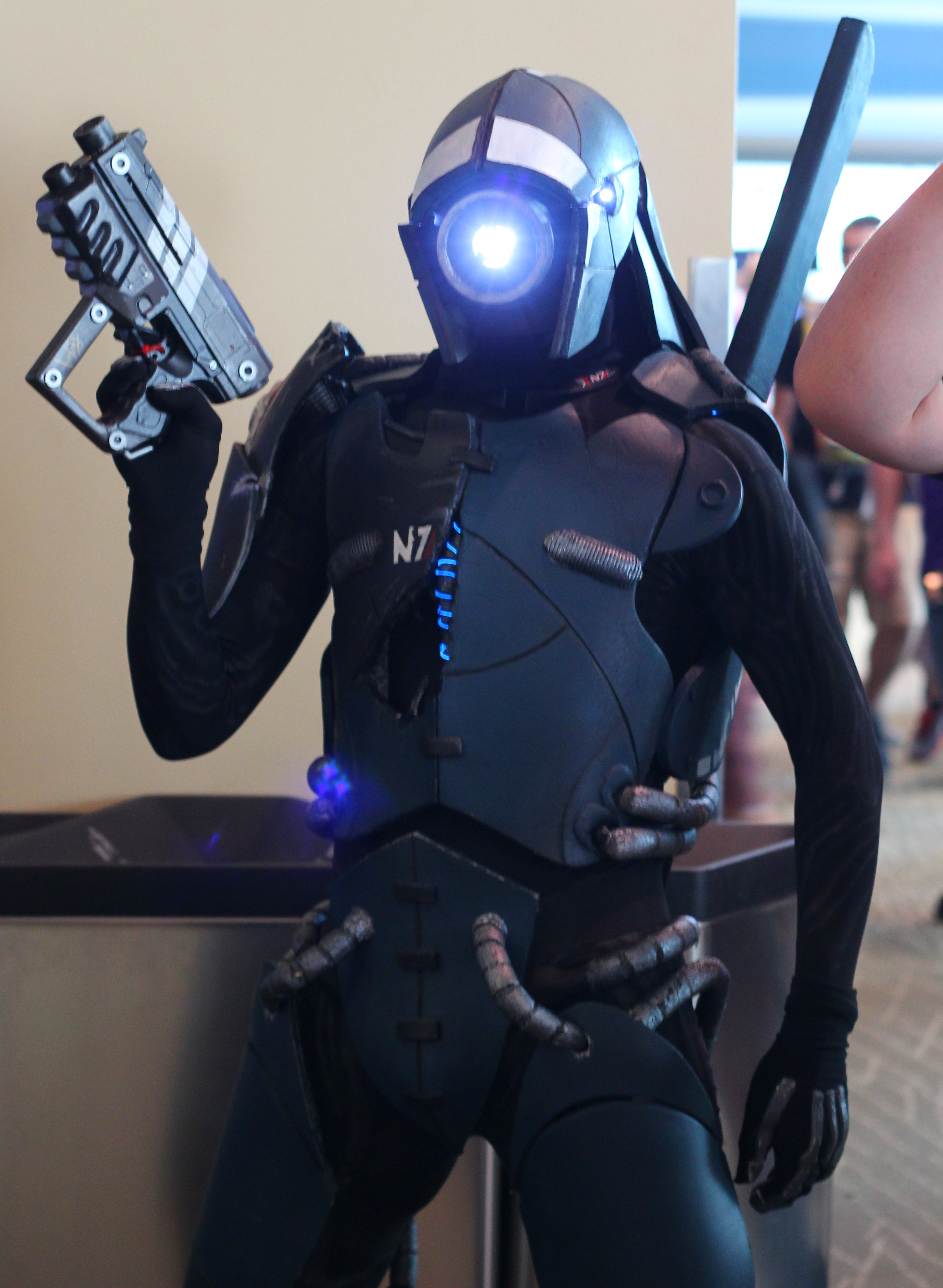 The geth cosplay